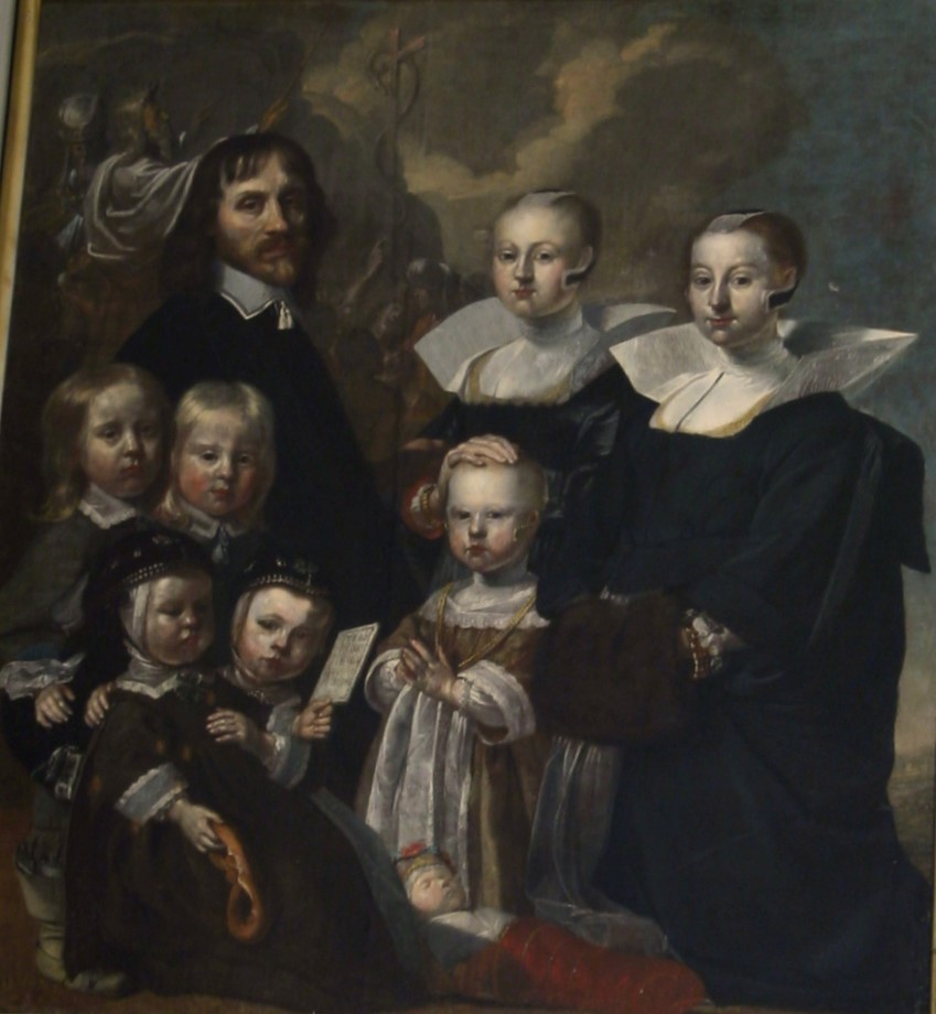 Hans Numsen family - Holmens kirke